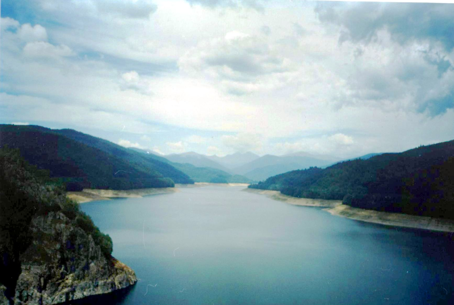 The Vidraru Lake, on Argeş river, Romania